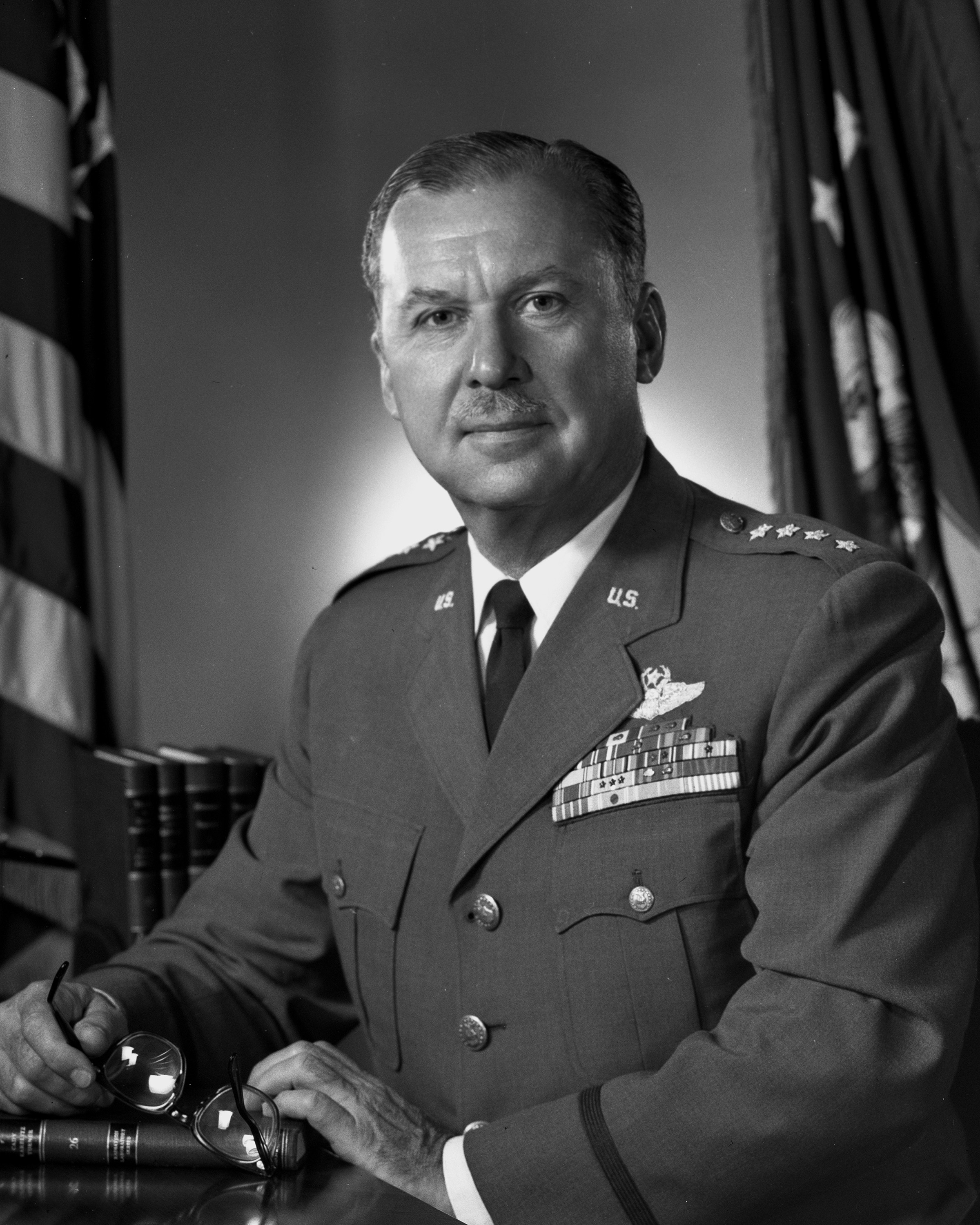 General James Ferguson from [1]